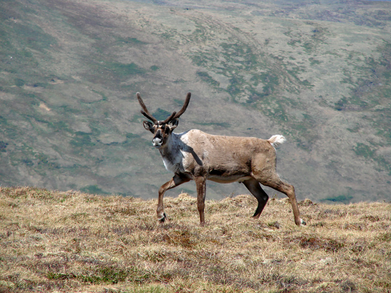 A member of the Steese-Fortymile herd photographed 2 miles southeast of Eagle Summit at an elevation of 4000 ft